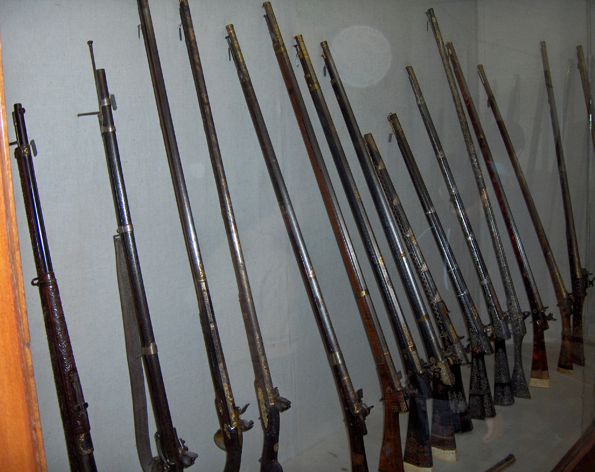 Ancient flintlock guns; Topkapı Palace, Istanbul, Turkey